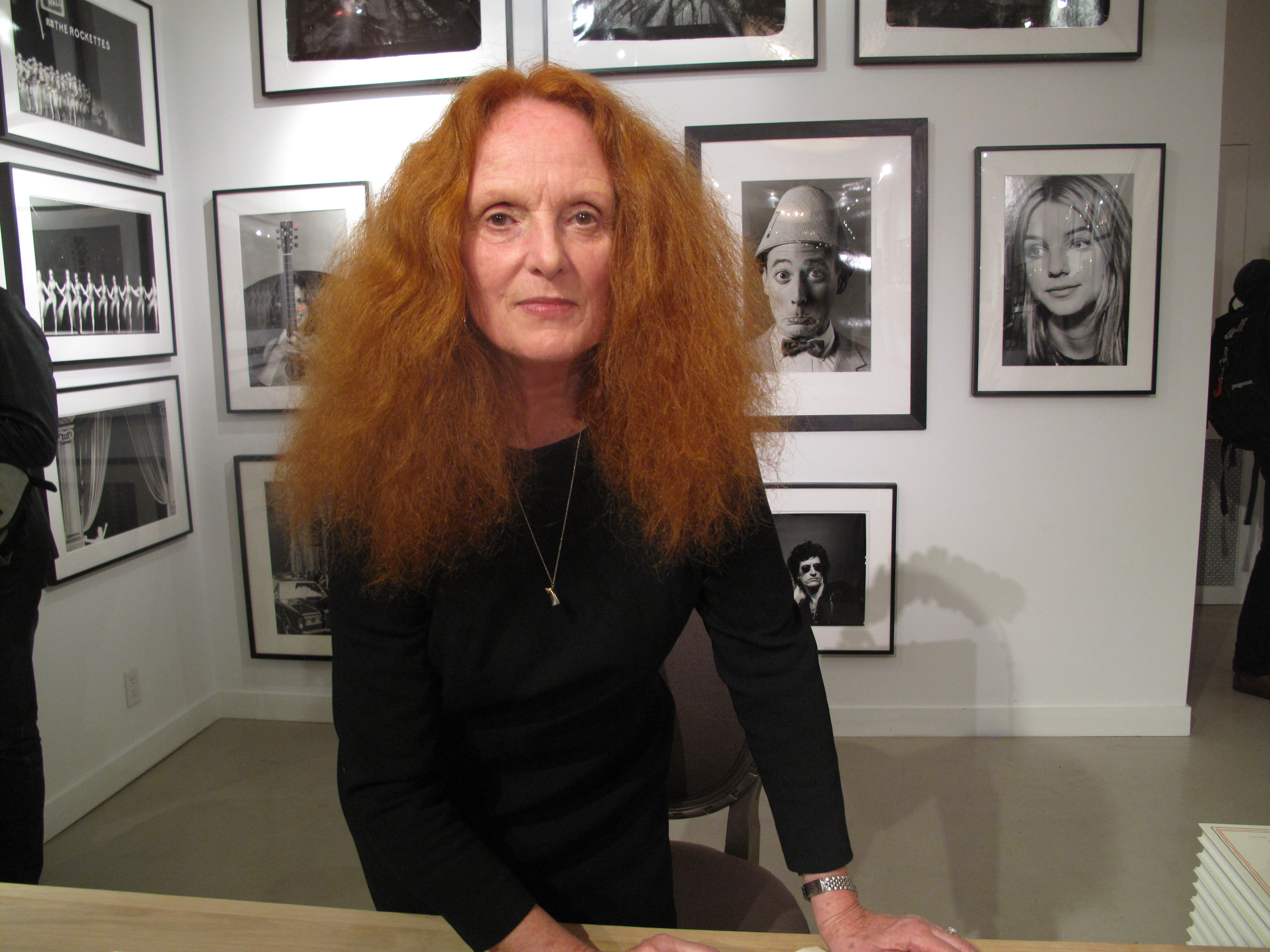 Grace Coddington, former model and the creative director of American Vogue magazine, at signing for her book with Didier Malige, The Catwalk Cats.